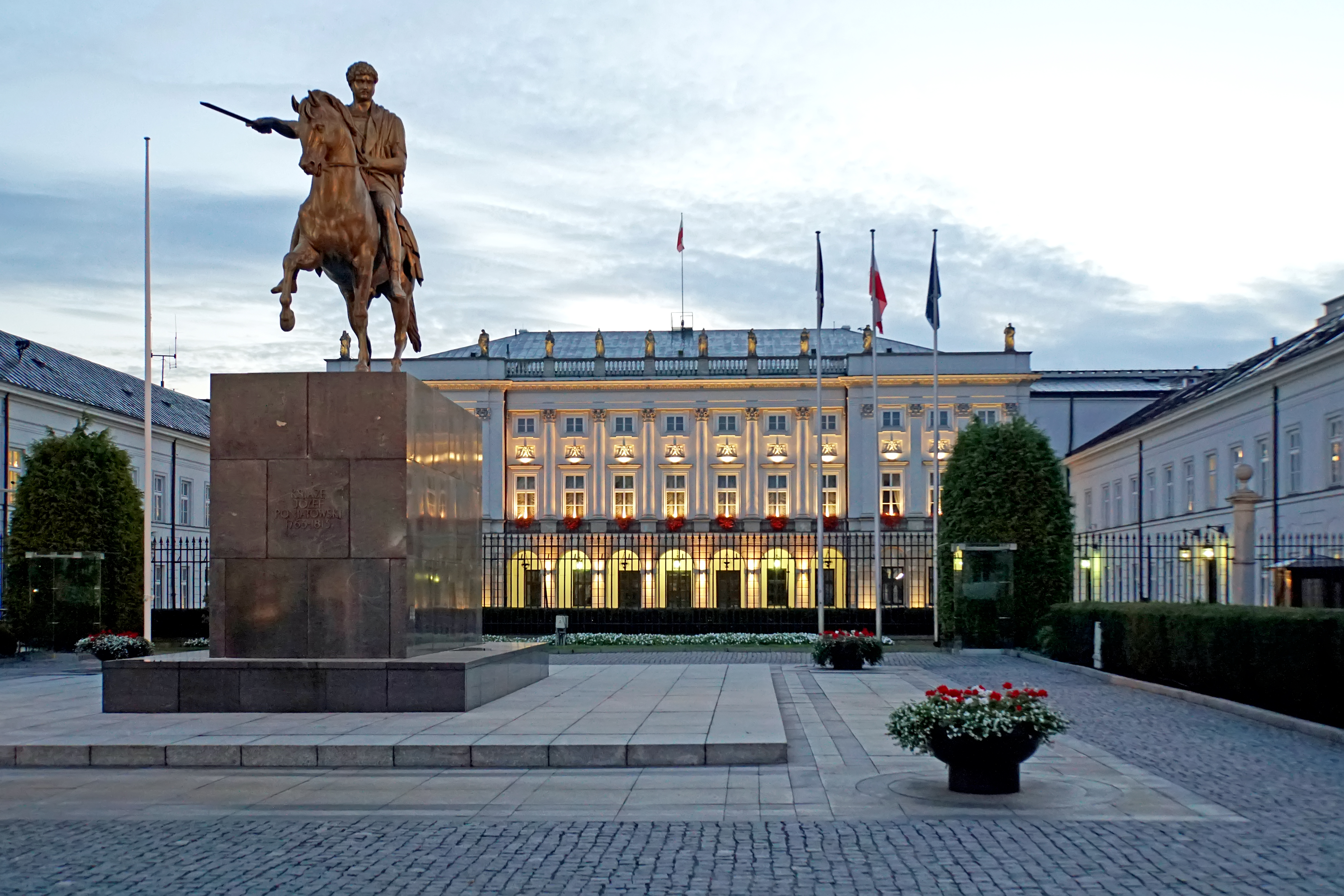 PLEASE, NO invitations or self promotions, THEY WILL BE DELETED. My photos are FREE to use, just give me credit and it would be nice if you let me know, thanks. Palace Prezydencki - Presidental Palace of the Republic of Poland. The statue of Prince Józef Poniatowski is in front of the palace.